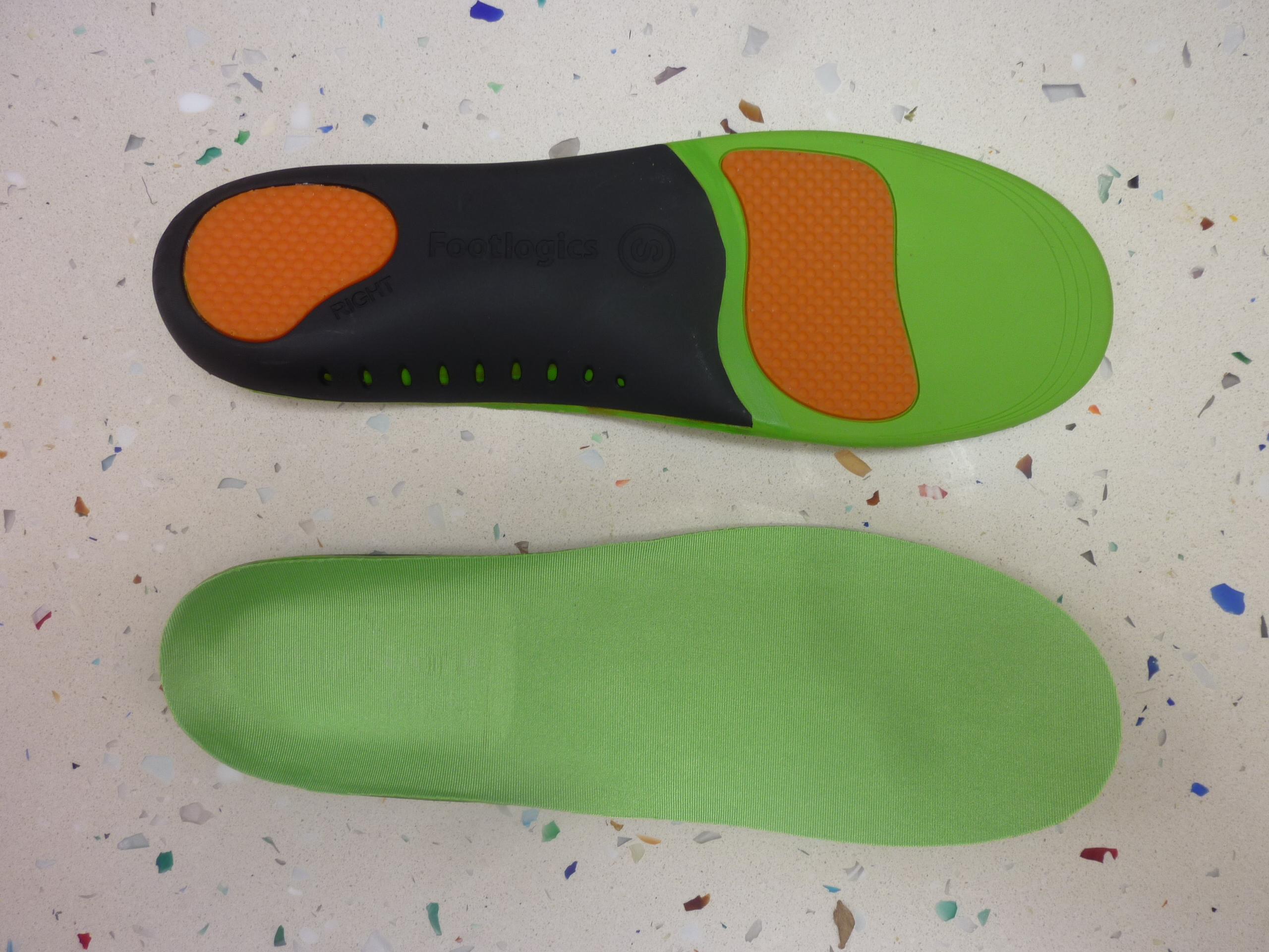 Orthotics